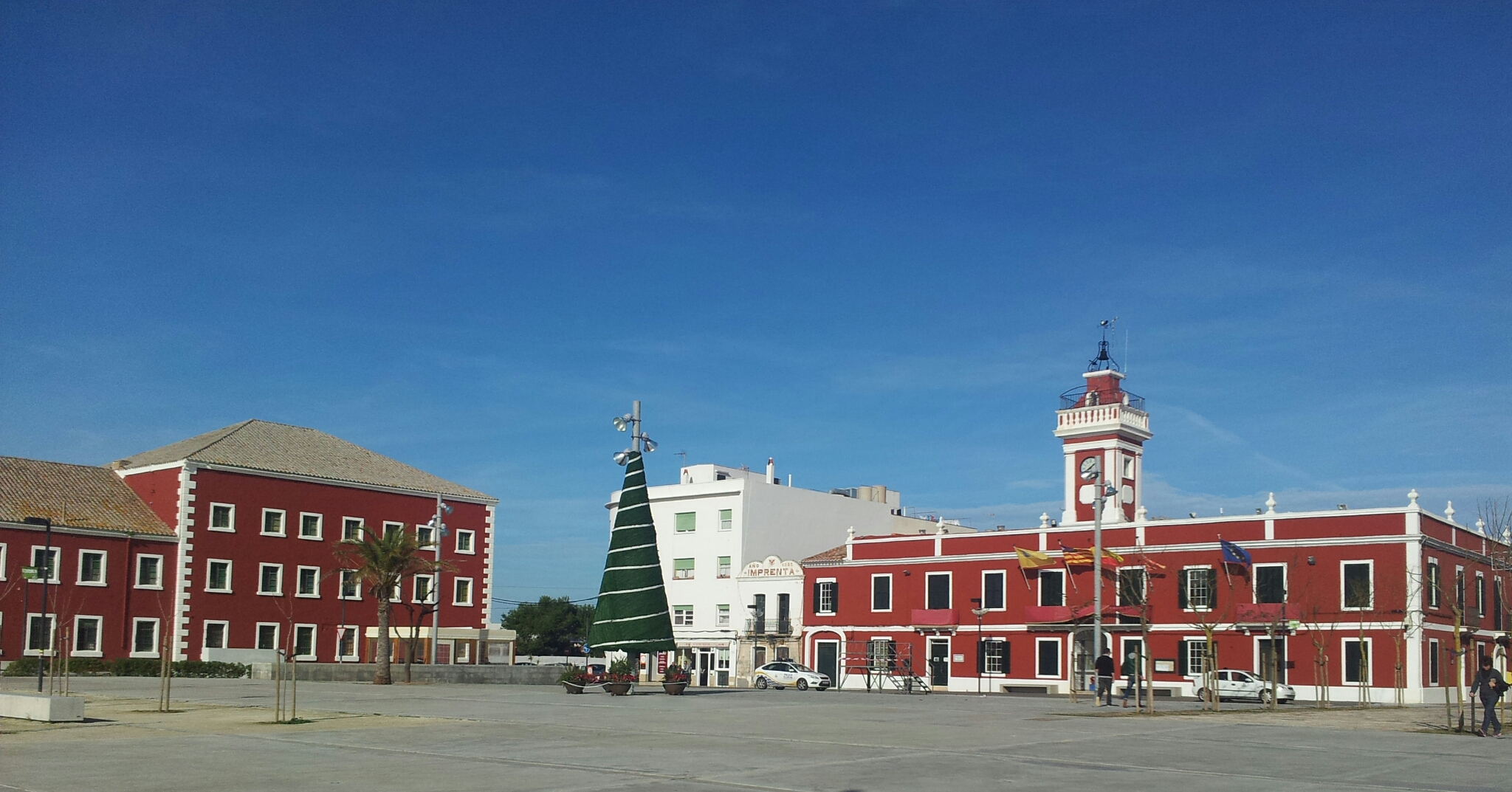 Es Castell Townhall, Minorca